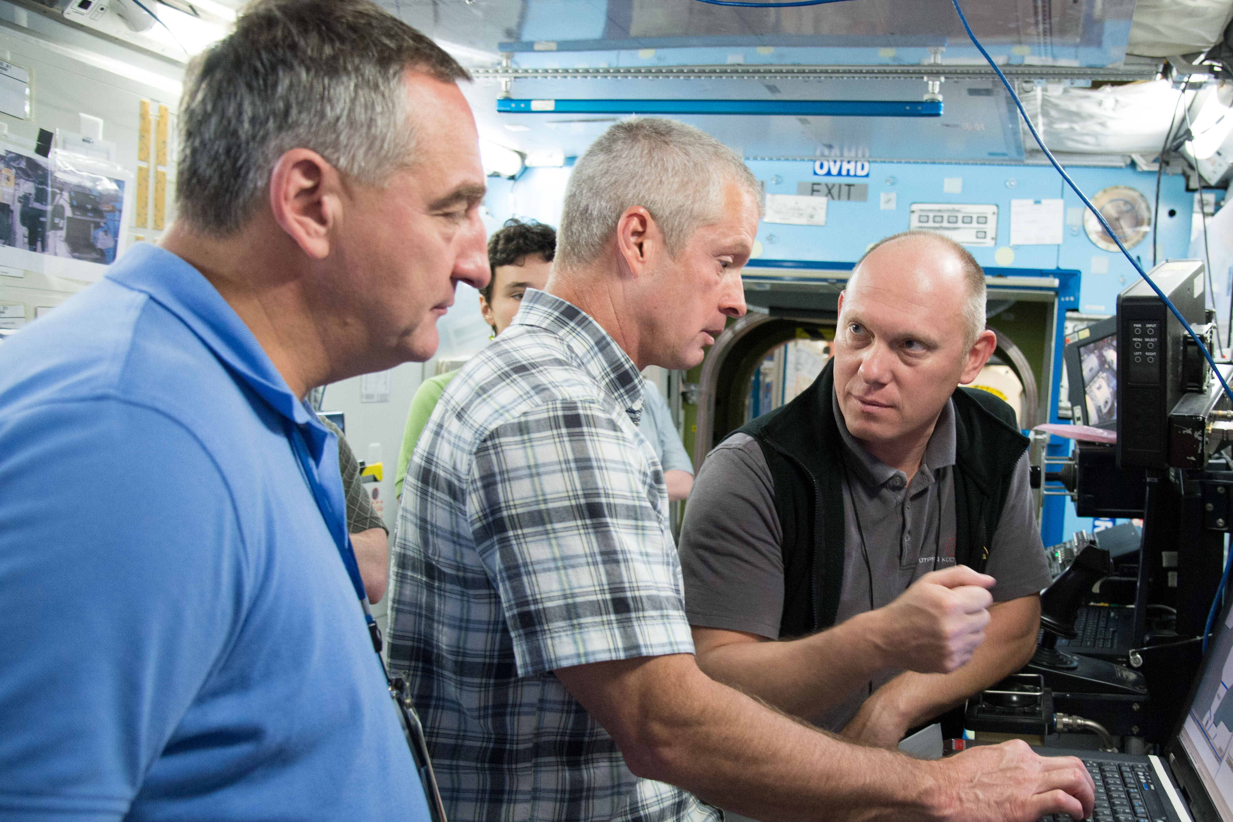 NASA astronaut Steve Swanson (center), Expedition 39 flight engineer and Expedition 40 commander; along with Russian cosmonauts Alexander Skvortsov (foreground) and Oleg Artemyev, both Expedition 39/40 flight engineers, participate in a routine operations training session in an International Space Station mock-up/trainer in the Space Vehicle Mock-up Facility at NASA's Johnson Space Center.